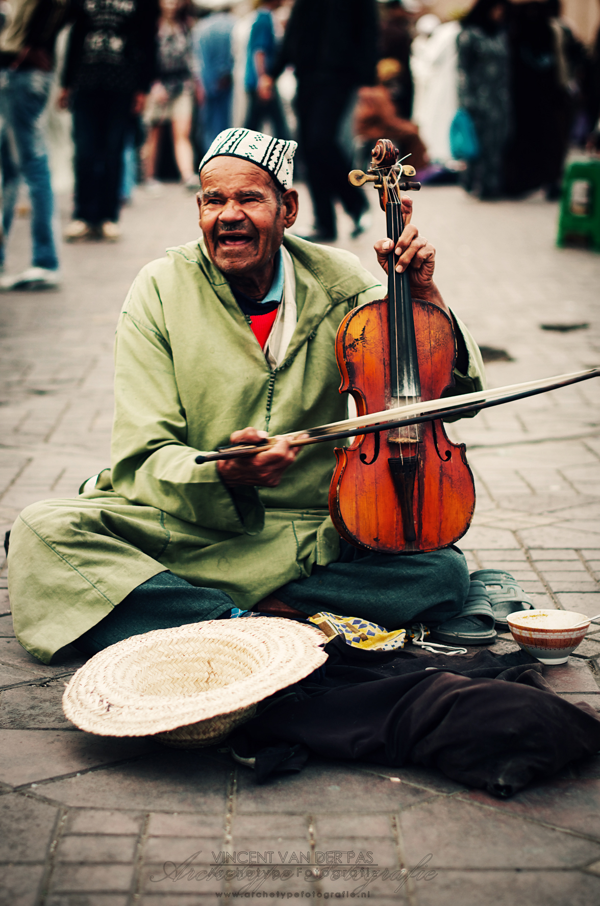 Street musician performs at Djemaa el Fna square in the old city of Marrakech, Medina. Every once in a while, he turns his violin 360 degrees and resumes play. View on .